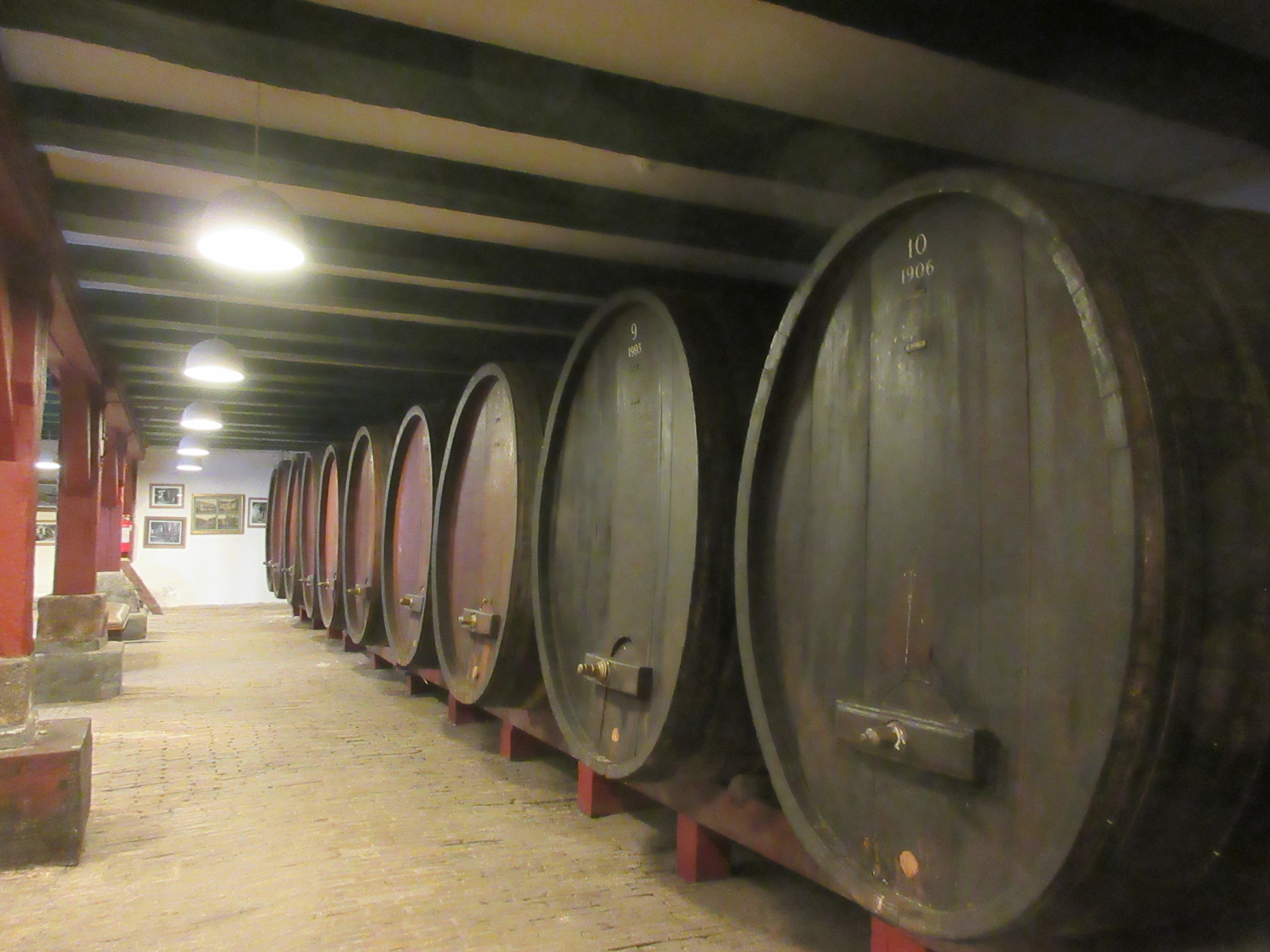 Barrels in Geerings Gård in Copenhagen, Denmark